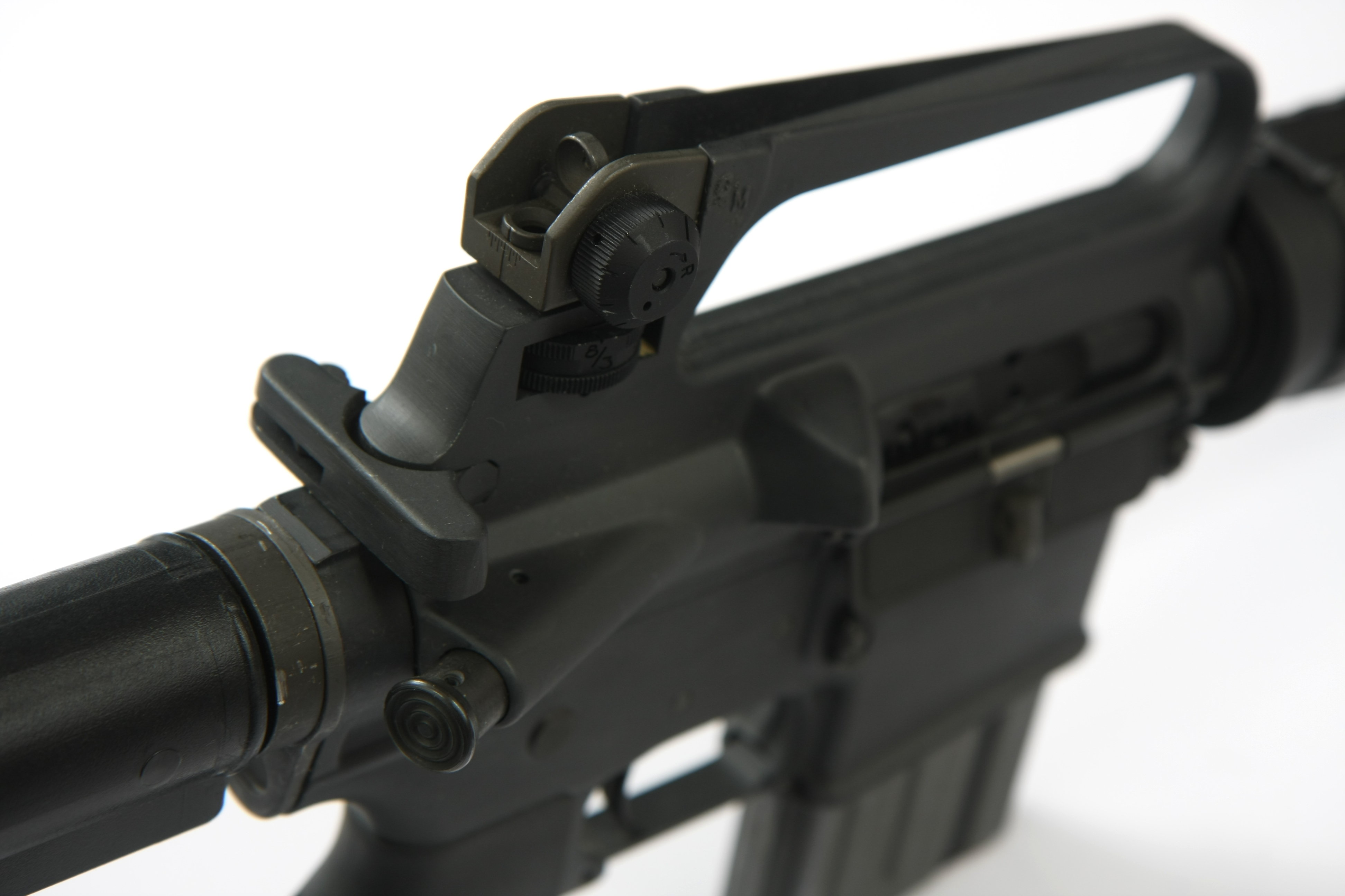 Upper, handle and rear sight Pre-ban Colt AR-15 Sporter Lightweight rifle.